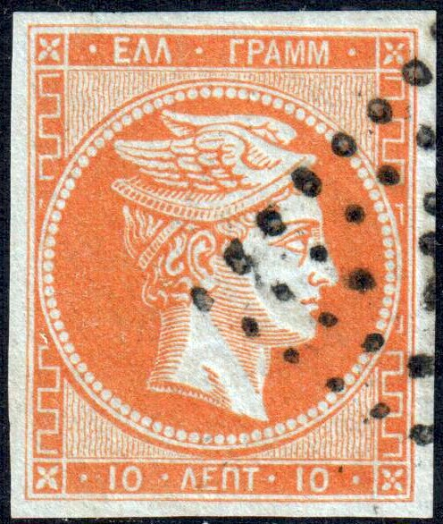 Large hermes head, Athens print. Catalogue: Mi. 12IIa